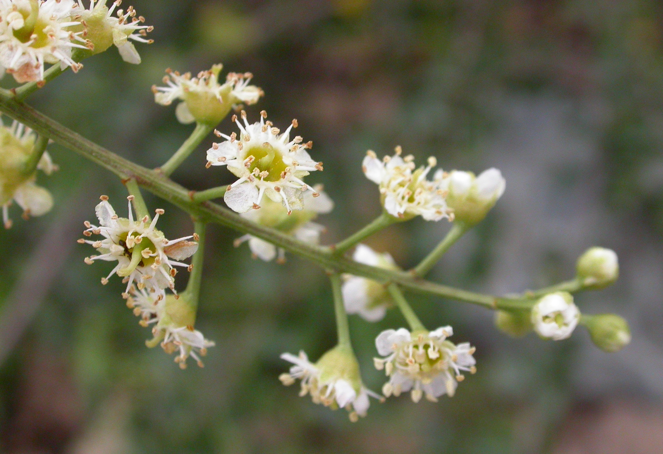 Photographed at BioTrek. Contributed and © by Curtis Clark. Licensed as noted.